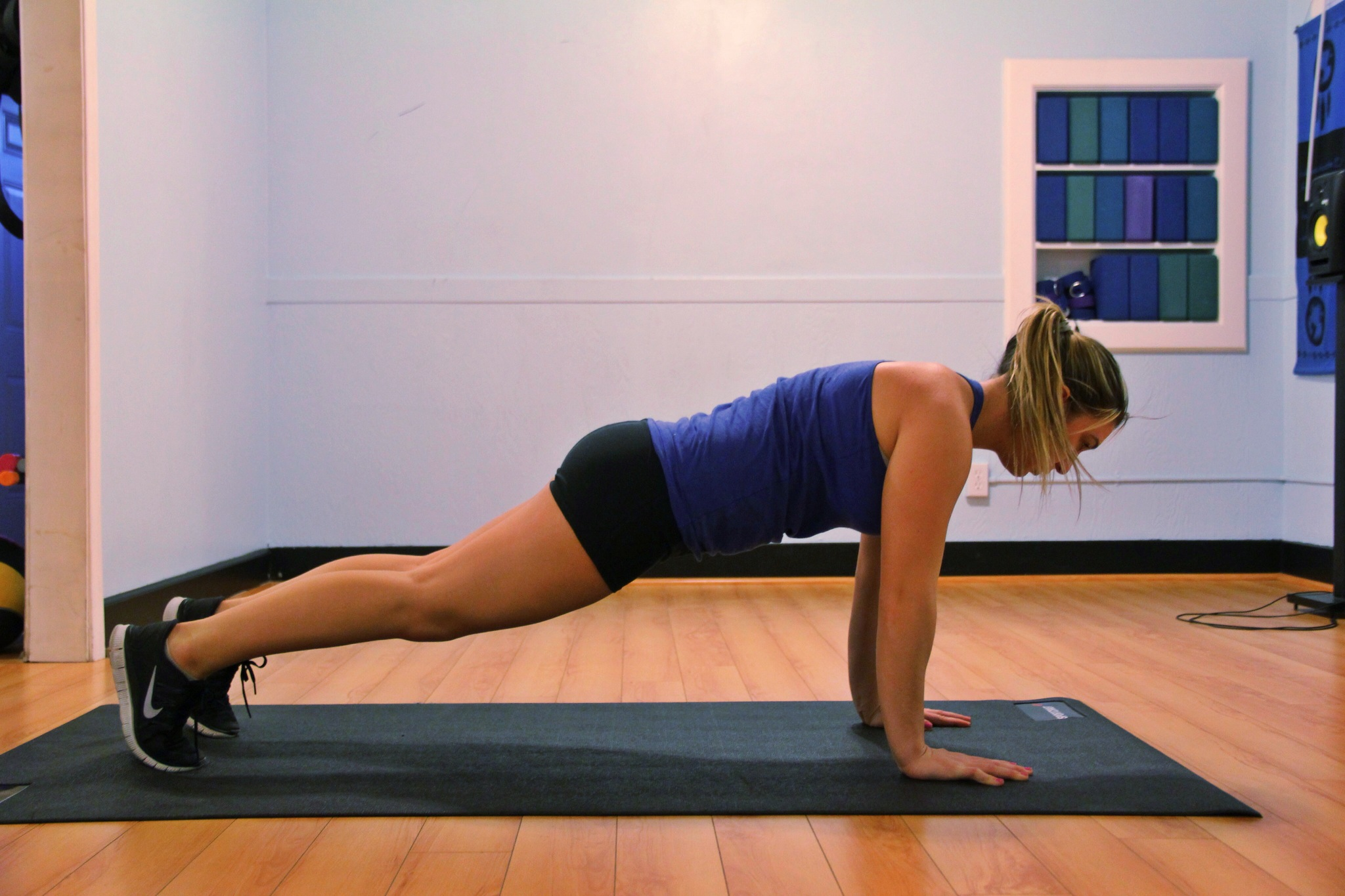 Planks activate and strengthen the inner core muscles as well as rectus abdominis and transverse abdominis. Planks help stabilize your spine and hips. Performing this exercise can help prevent back injury and back pain.